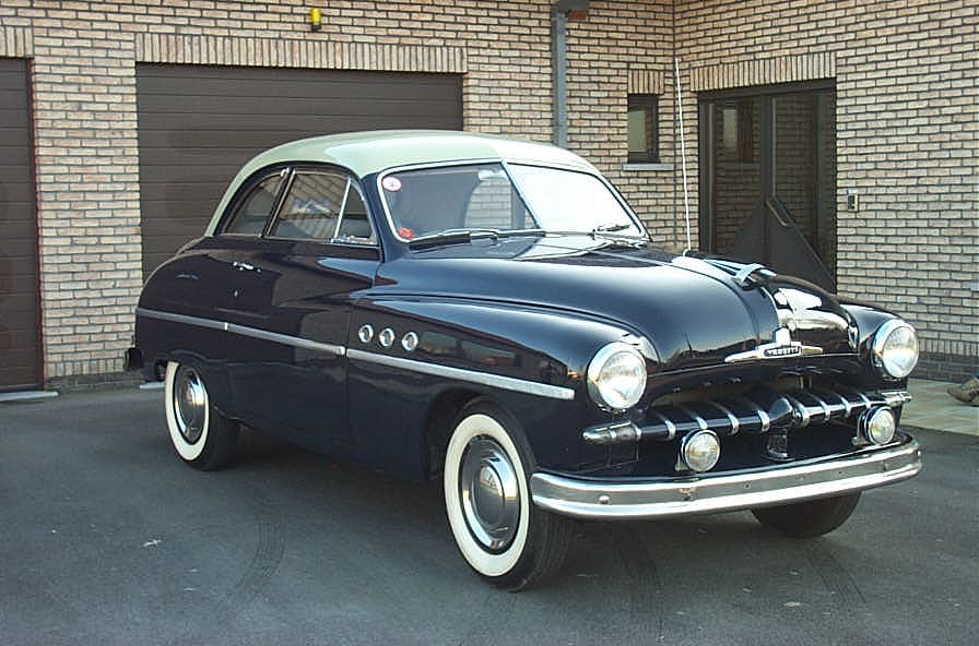 1950 Ford Vedette Coupé, navy blue with white roof The vehicle was among the many classic French cars handled by the Garage de l'Est